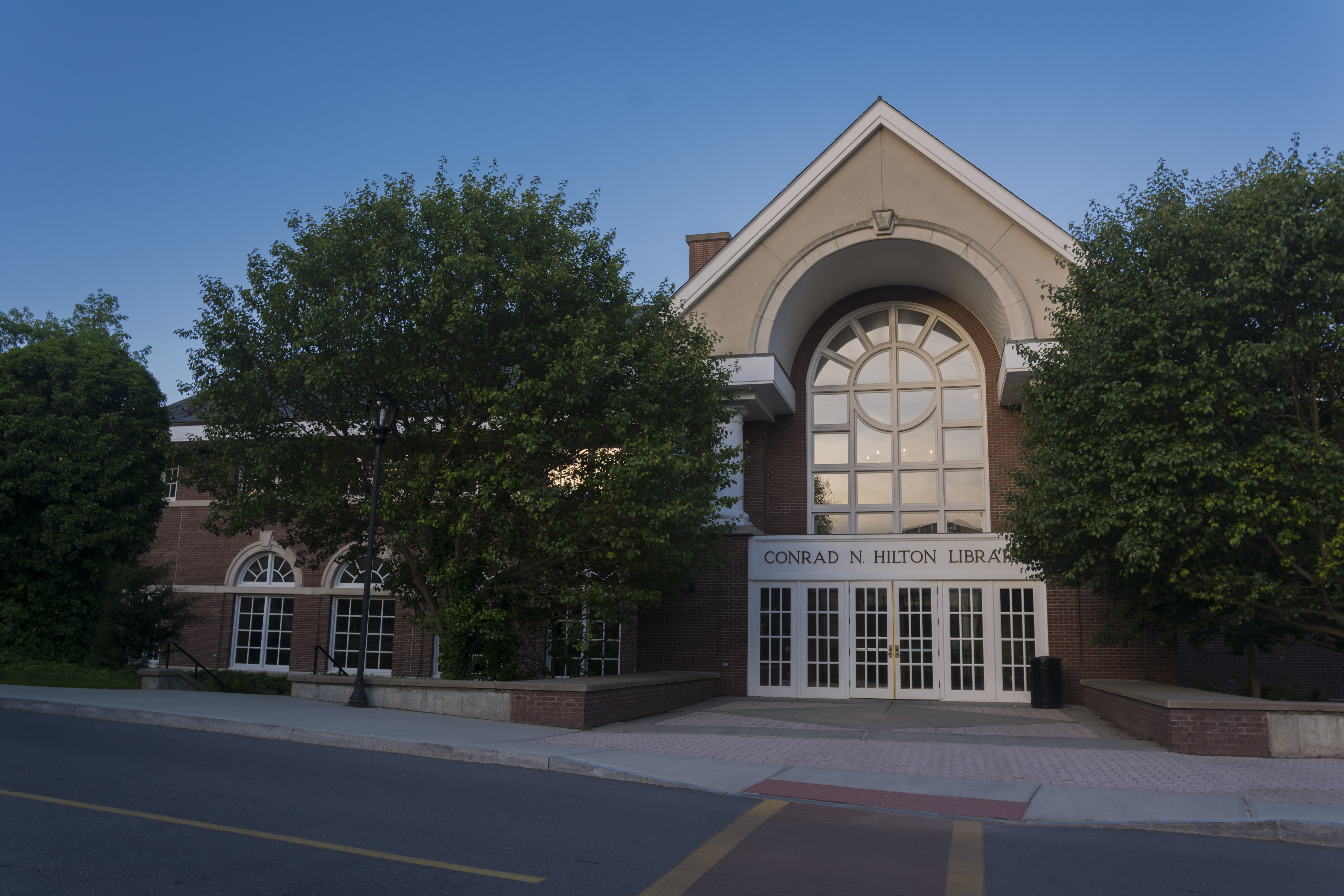 Part of the Culinary Institute of America's Hyde Park campus.